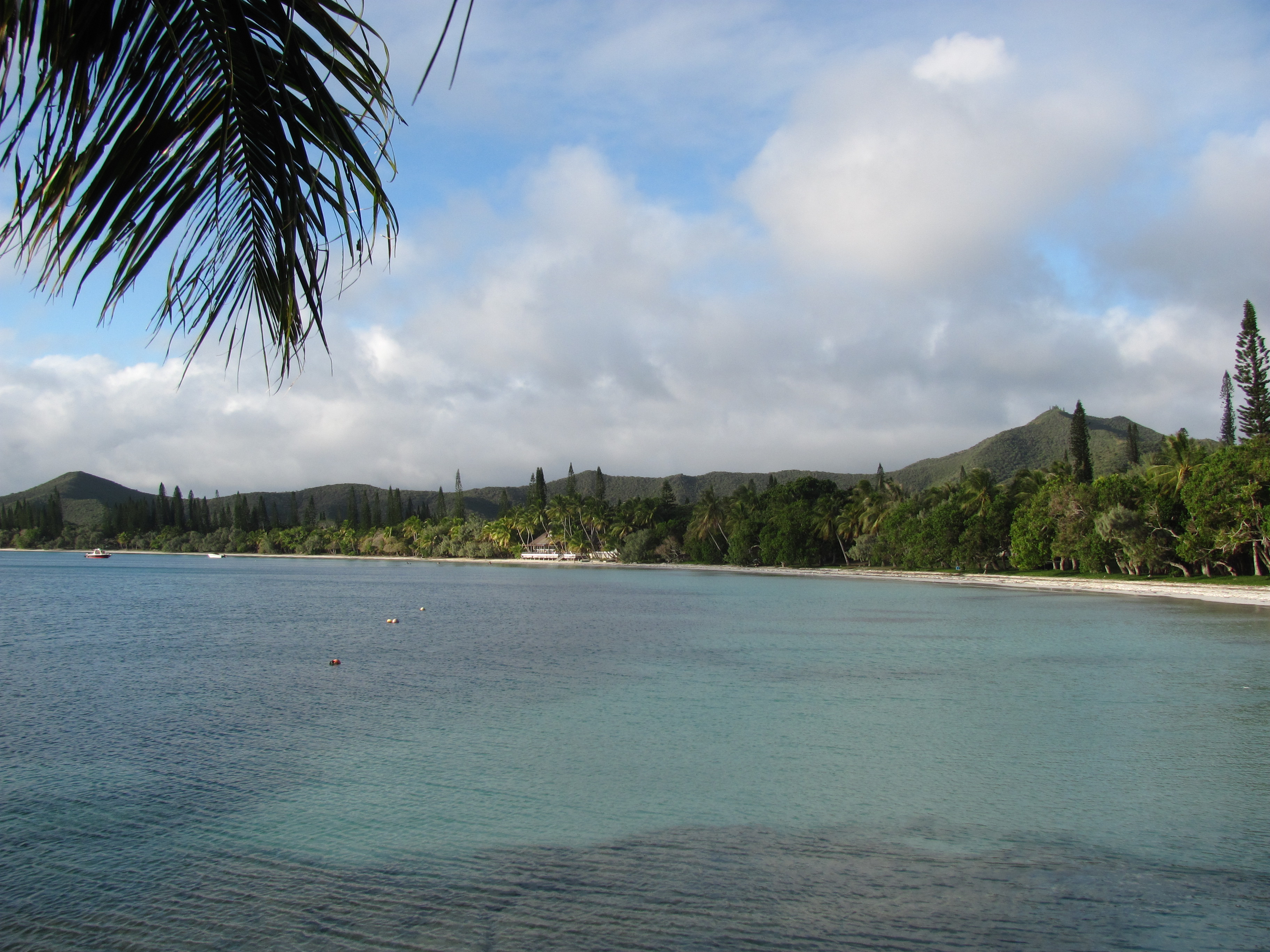 Baie de Kuto. Kuto, L'Île-des-Pins, New Caledonia